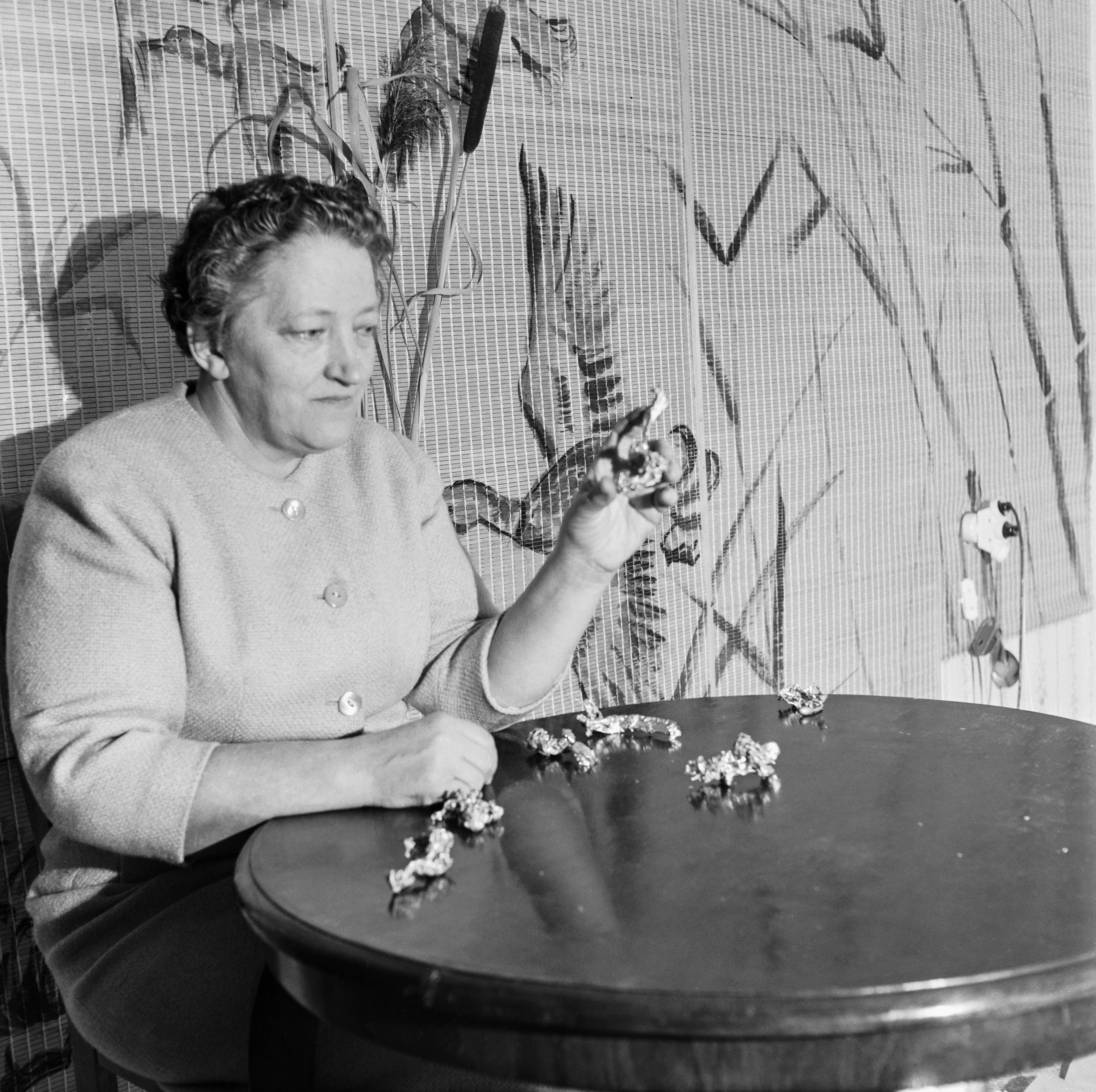 Photograph of the Finnish fortuneteller Aino Kassinen (1900–1977) predicting the future of Finnish politicians. She is foretelling from the shapes taken by melted tin.